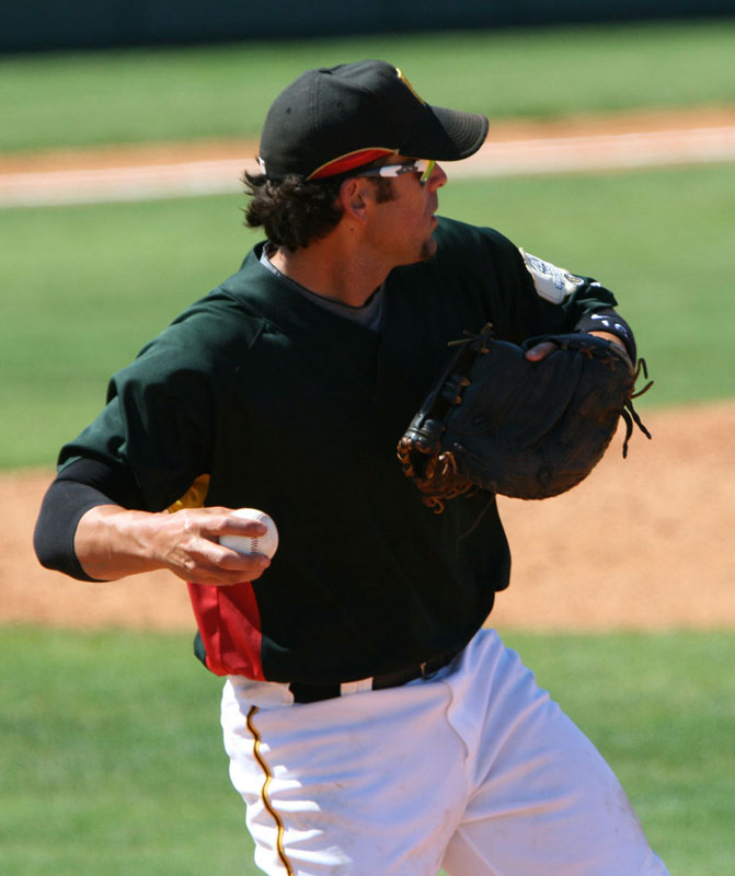 Doug Mientkiewicz at McKechnie Field. Spring training 2008.